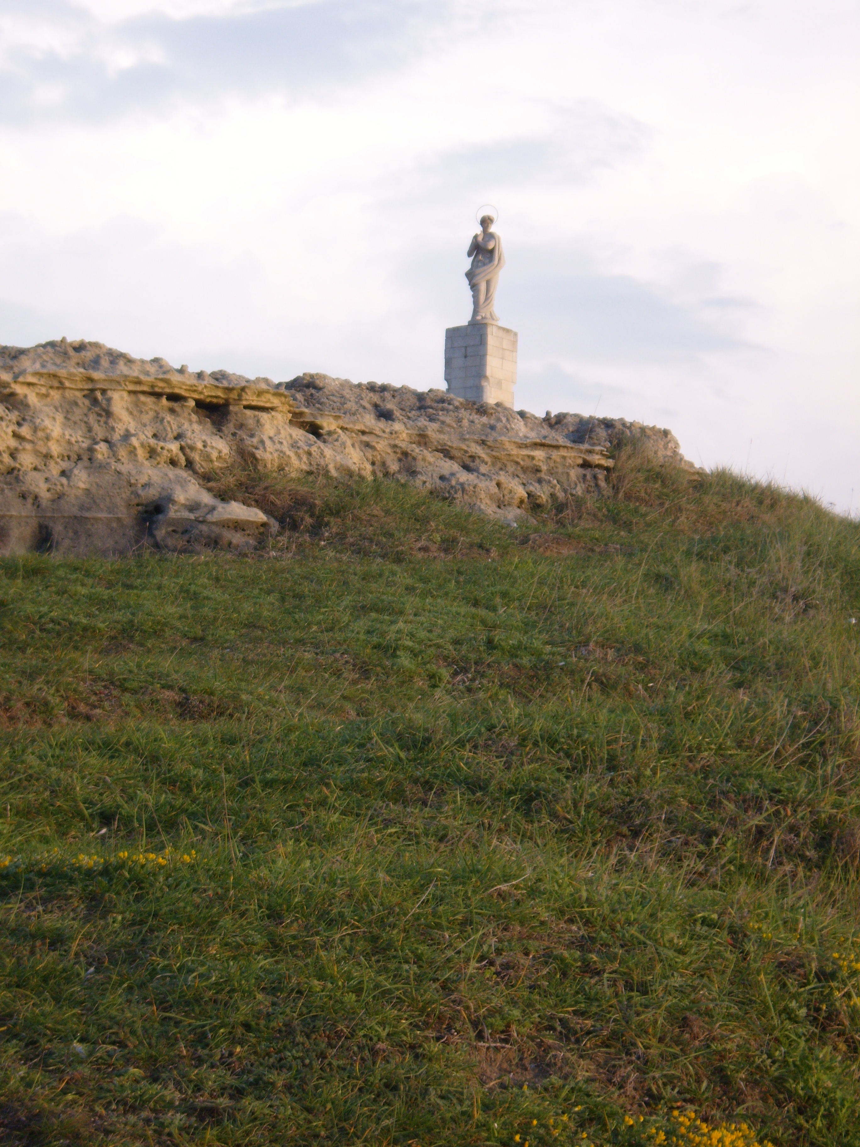 Santa Maria column in Roca Vecchia, Adriatic sea. It is part of the town of Melendugno, Province of Lecce, Italy